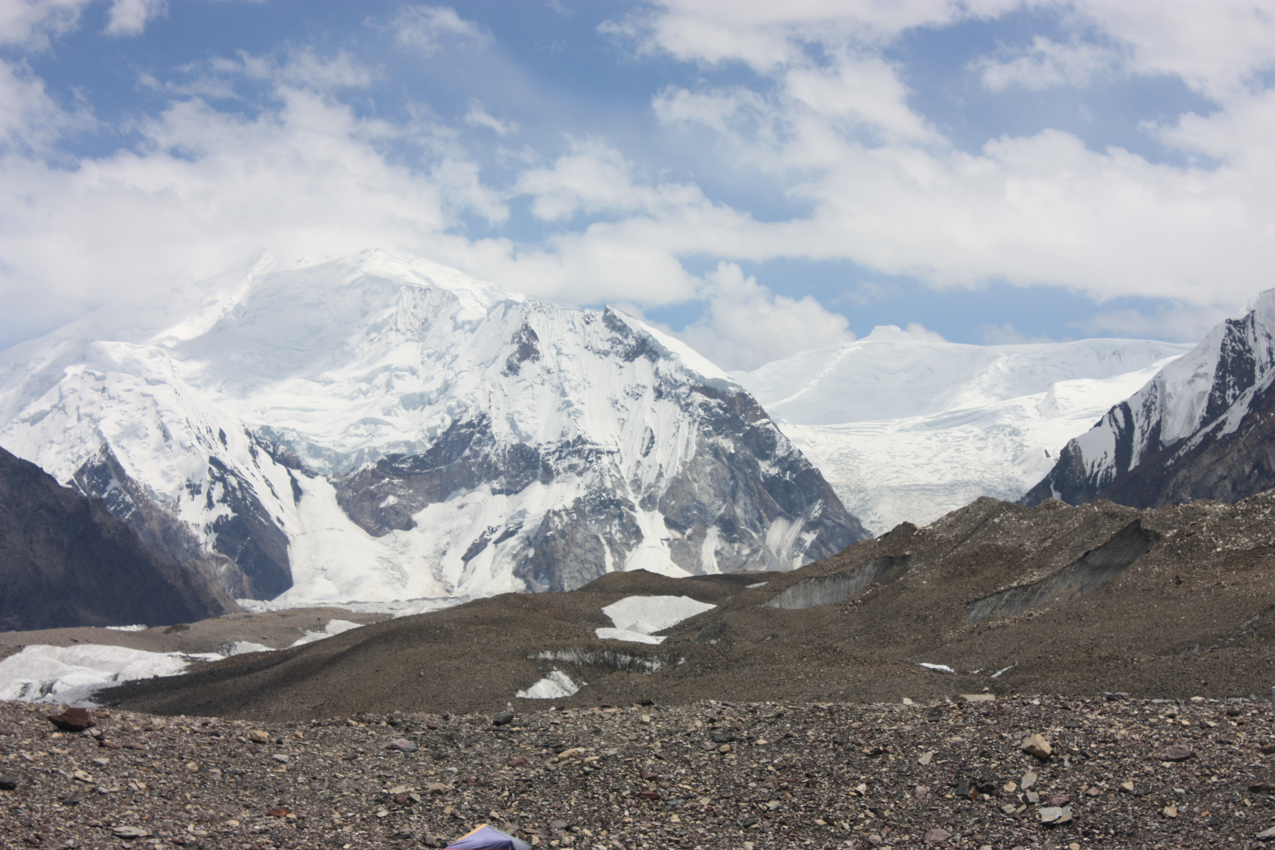 Baltoro Kangri (7300 m) on the left